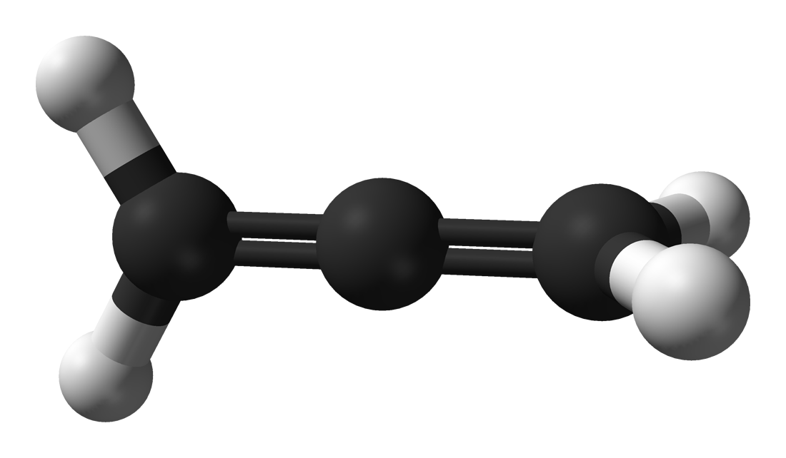 Ball-and-stick model of the allene molecule, C3H4. Structural information (determined by infrared spectroscopy) from CRC Handbook, 88th edition. Image generated in Accelrys DS Visualizer.